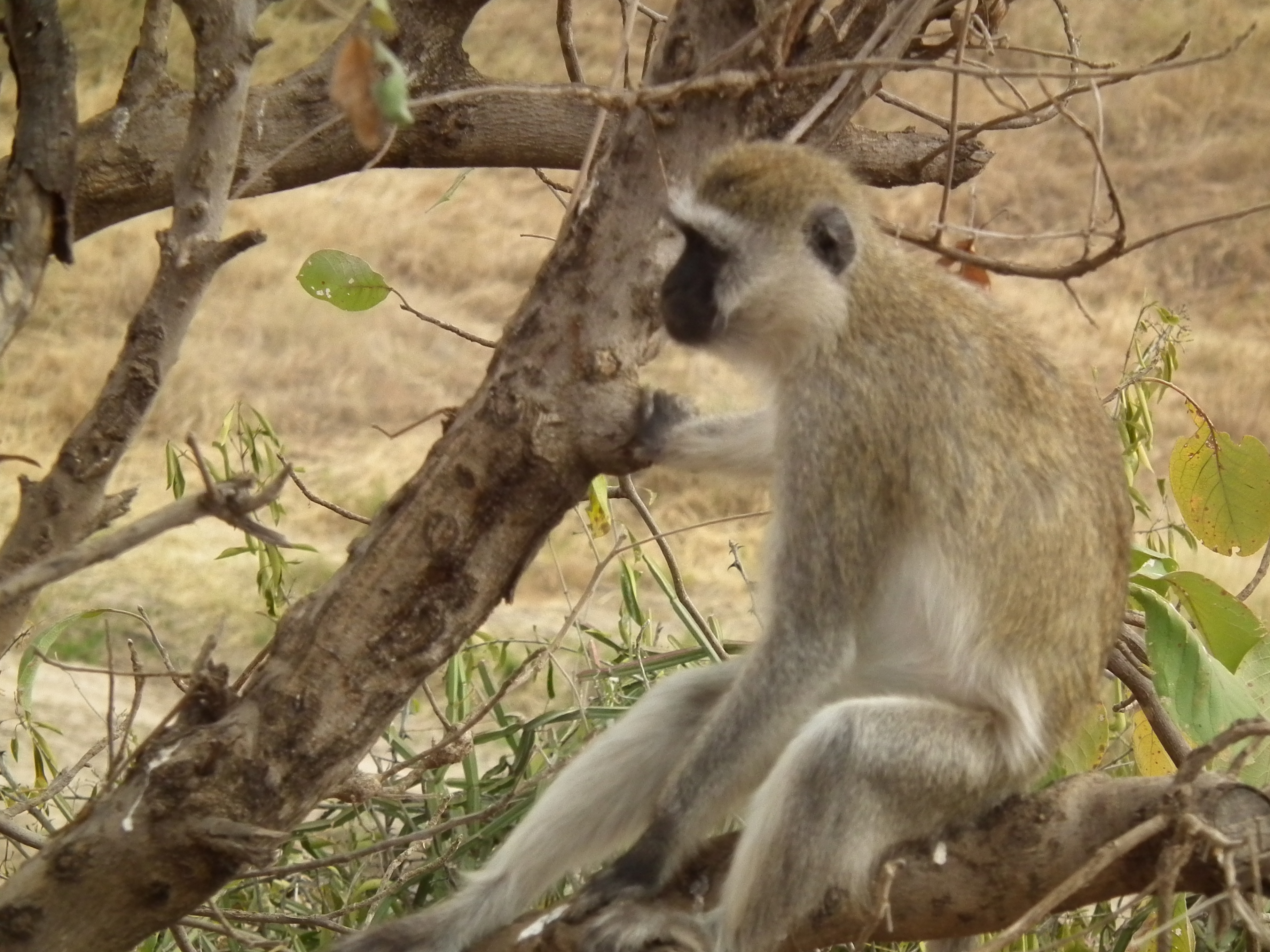 Black faced Vervet monkey, Chlorocebus pygerythrus, picture taken in Tanzania